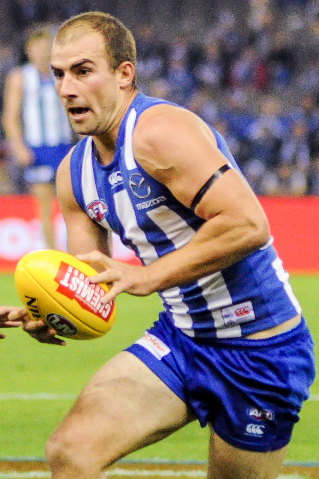 during the AFL round thirteen match between North Melbourne and St Kilda on 16 June 2017 at Etihad Stadium in Melbourne, Victoria.